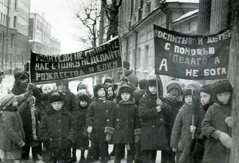 Kids. Antireligion demonstration. Moscow ( Воспитанники детских садов на антирелигиозной демонстрации Левый плакат: "Родители, не сбивайте нас с толку, не делайте Рождества и елку" Правый плакат: "Воспитывай детей с помощью педагога, а не Бога")